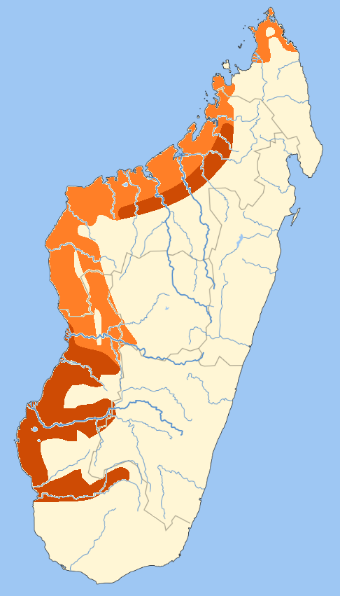 Native range of genus Cryptostegia madagascariensis, adapted from McFadyen RE, Harvey GJ. Distribution and control of rubbervine, Cryptostegia grandiflora, a major weed in northern Queensland. Plant Protection Quarterly 1990; 5: 152–5. Cryptostegia madagascariensis, glabrous form Cryptostegia madagascariensis, hirsute form